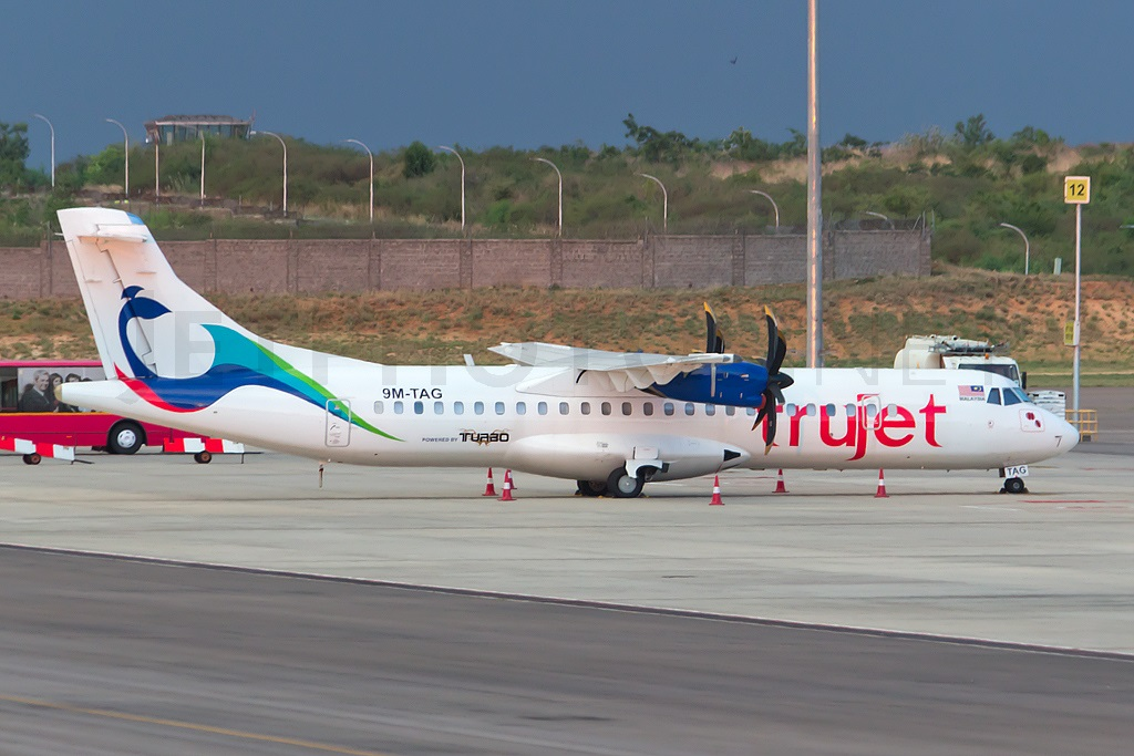 TruJet ATR 72-500, registered 9M-TAG (later VT-TMK), at Rajiv Gandhi Intl Airport in June 2015, one month before the airline started operations